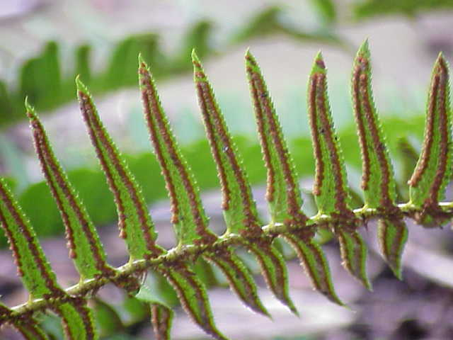 Species: IDed as Polystichum lonchitis on upload, apparently Polystichum munitum' Family: Aspidiaceae Image No. 1